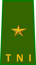 Brigadier General rank insignia that used on daily uniforms of Indonesian Army